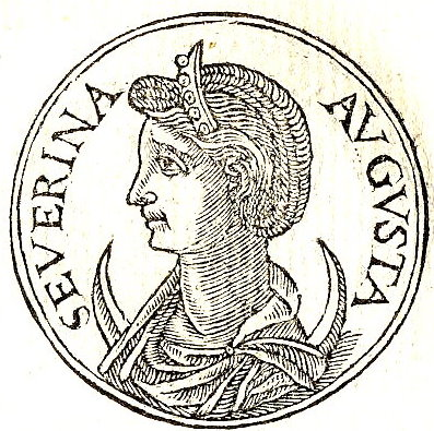 Marina Severa († before 375) was the Empress of Rome and first wife of Emperor Valentinian I. She was the mother of later Emperor Gratian.